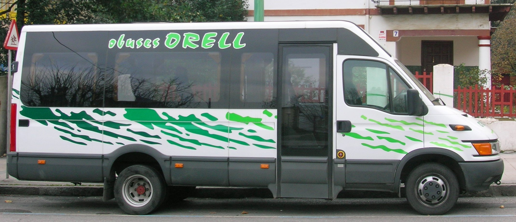 Iveco Daily Mk3 minibus, parked in Barakaldo.